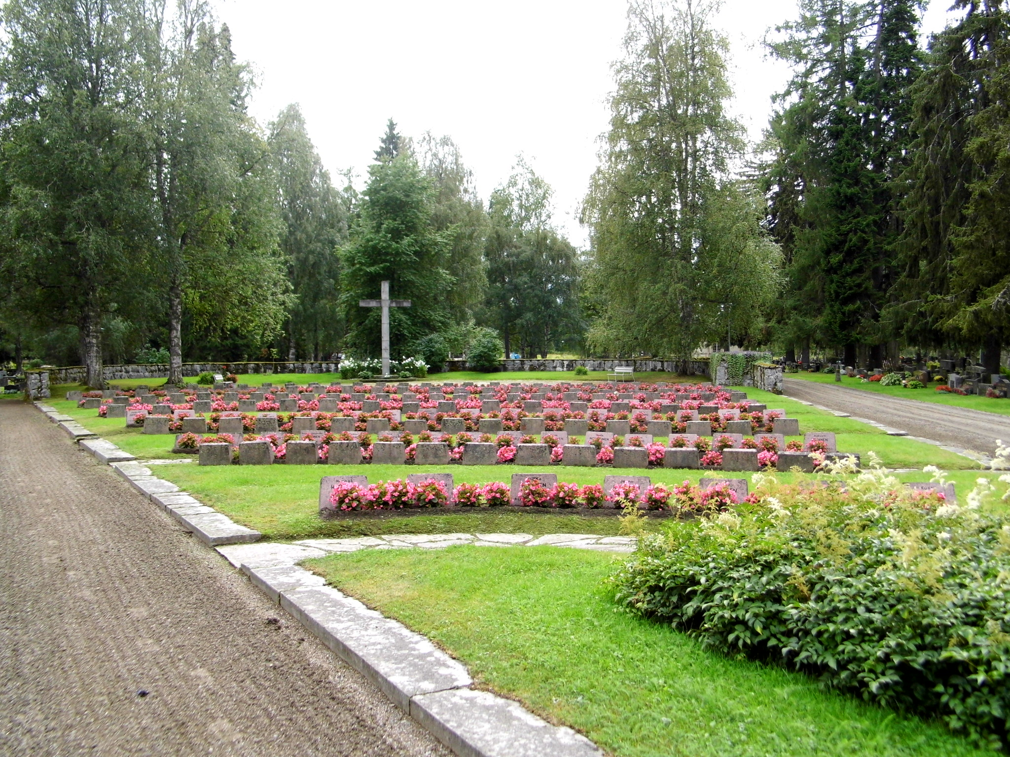 Military cemetary at chuch in Iisami, Finland